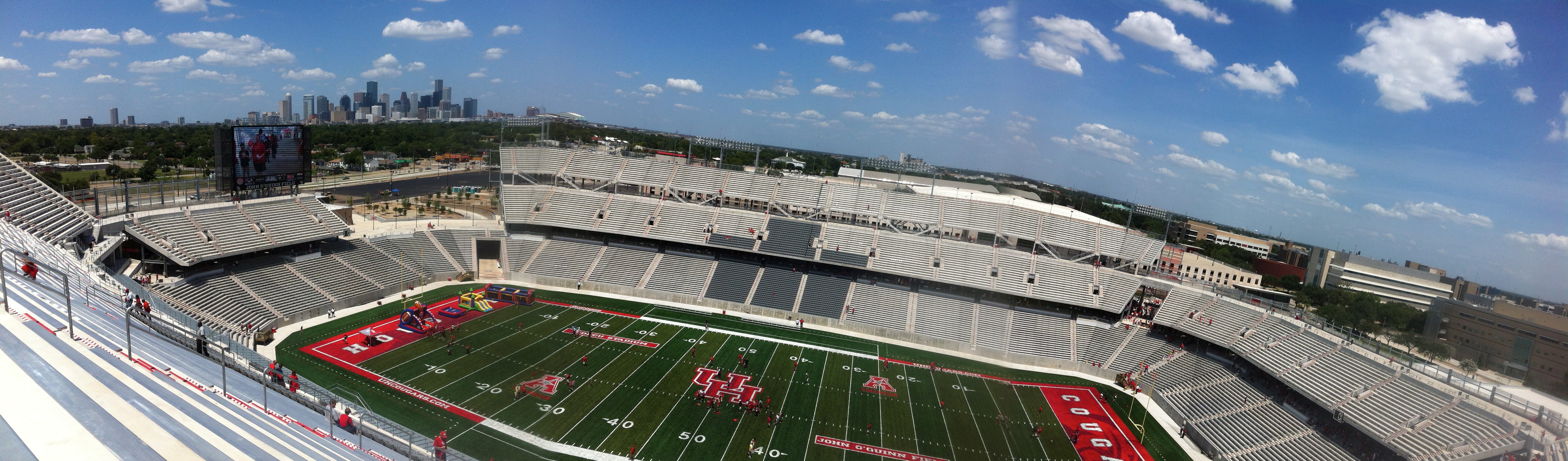 A view of the interior of TDECU Stadium